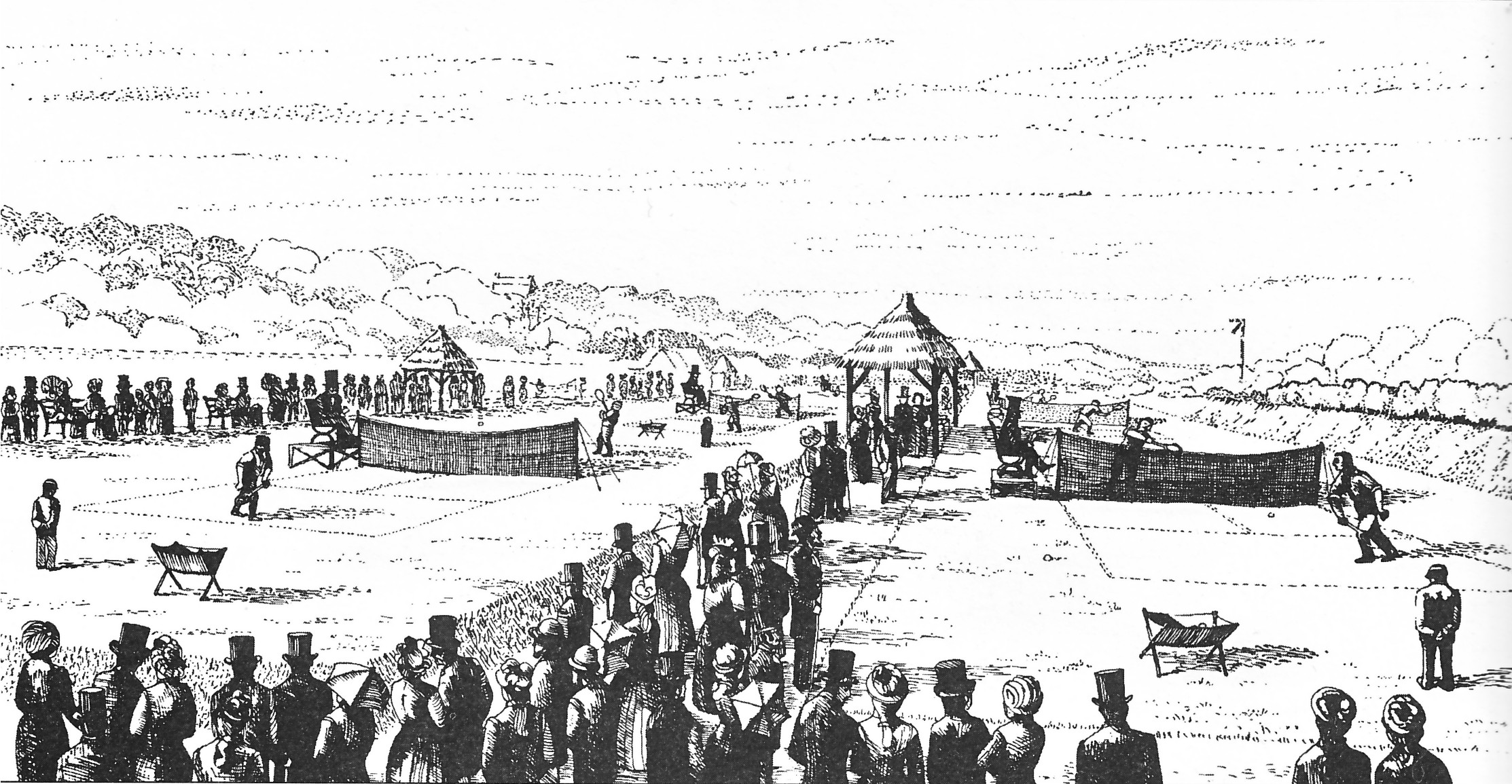 Contemporary engraving of the first Wimbledon Championships at Worple Road, London, in 1877. Note the higher net (5 ft). The clubhouse is located on the left (in a distance). Worple Road is on the left and on the right is the track of the London and Southampton Railways. The balls were kept in the "mangers" close to the players.